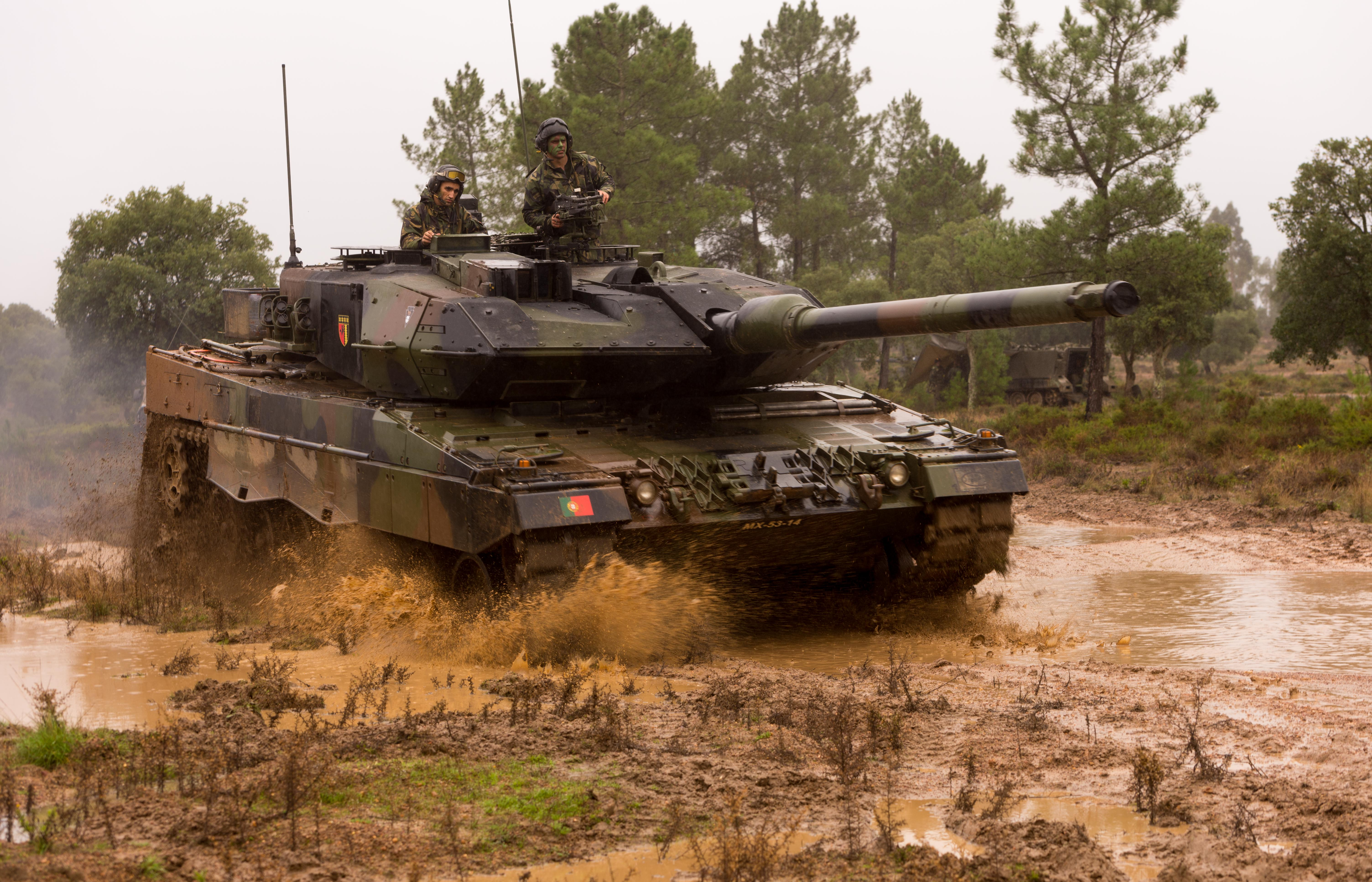 A Portuguese tank leaves camp on a patrol of the front lines in Santa Margarida, Portugal, during JOINTEX 15 as part of NATO’s exercise TRIDENT JUNCTURE 15 on November 4, 2015 Photo: Cpl Jordan Legree, Public Affairs, 5CMBG VL06-2015-535-003